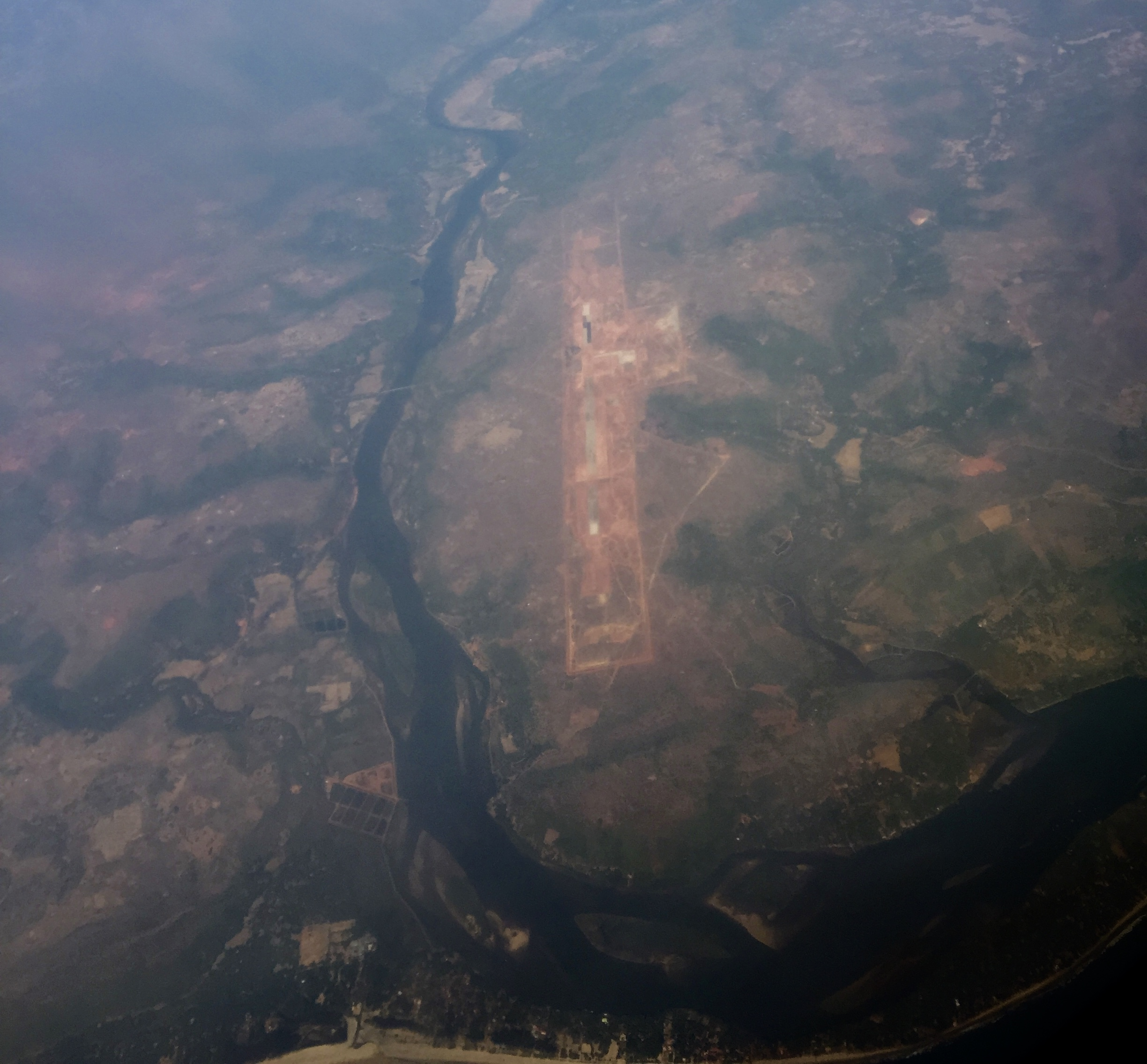 Aerial view of the construction site of Sindhudurg Airport in Chipi village, Maharashtra, India